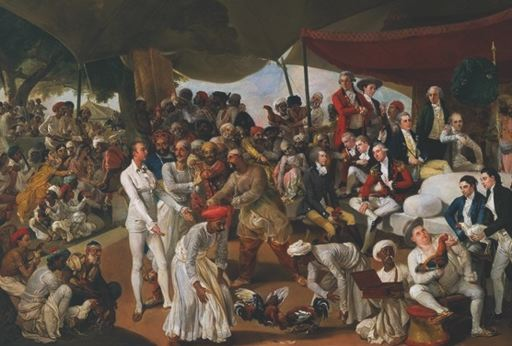 A Cockfight in Lucknow - Oil painting by Johann Zoffany. The painting depicts a cock match between Asaf-ud-daula, Nawab Wazir of Oudh (standing in the centre) and Colonel John Mordaunt (standing on the left in white). Also in the picture is Claude Martin (in uniform, seated on the dais), Colonel Antoine Polier (red coat, standing under awning), John Wombwell (seated to the right with hookah), Stand beside Wombwell is Ozias Humphrey (artist with hand on Zoffany's shoulder). Standing far right corner, with blue coat and white bird, is Robert Gregory (assistant to the Governor-General's rep). The large guy in white, sitting right foreground cock is Lt Golding of the East India Corps of Engineers